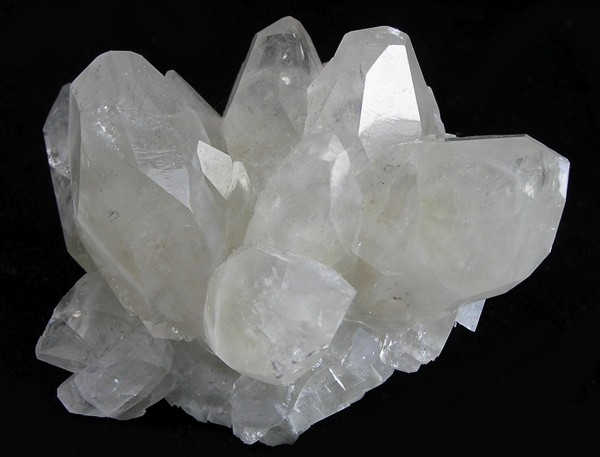 Calcite Locality: Moscona Mine, Solís, Llanera, Villabona mining area, Asturias, Spain (Locality at ) Size: 7.0 x 4.8 x 4.4 cm. A cluster of very lustrous, transparent crystals of calcite from Spain, radiating outwards on a small bit of matrix. The sharp, chunky crystals measure to 3.5 inches in length.